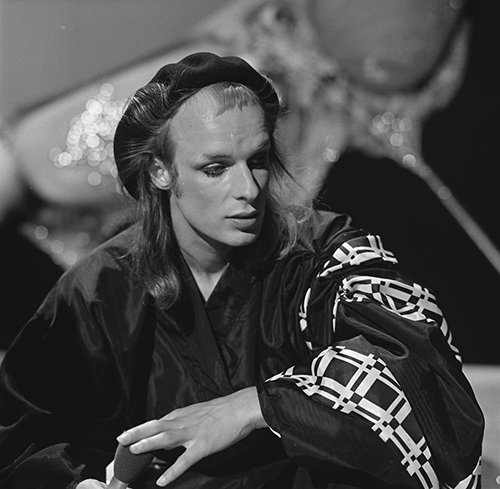 Brian Eno in AVRO's TopPop (Dutch television show) in 1974